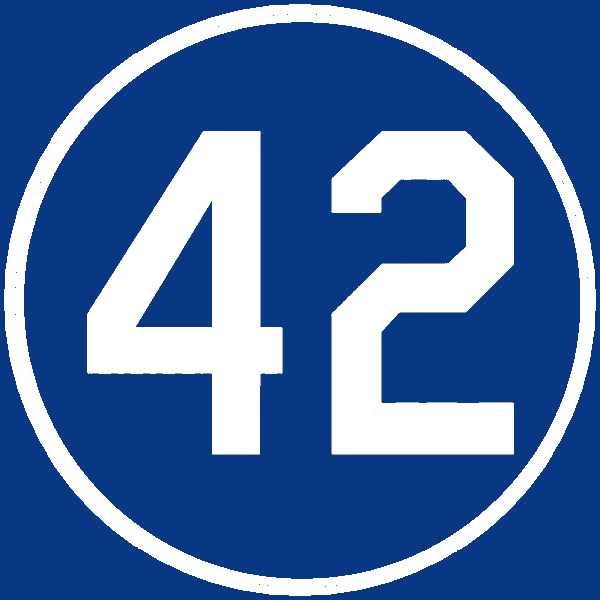 Jackie Robinson